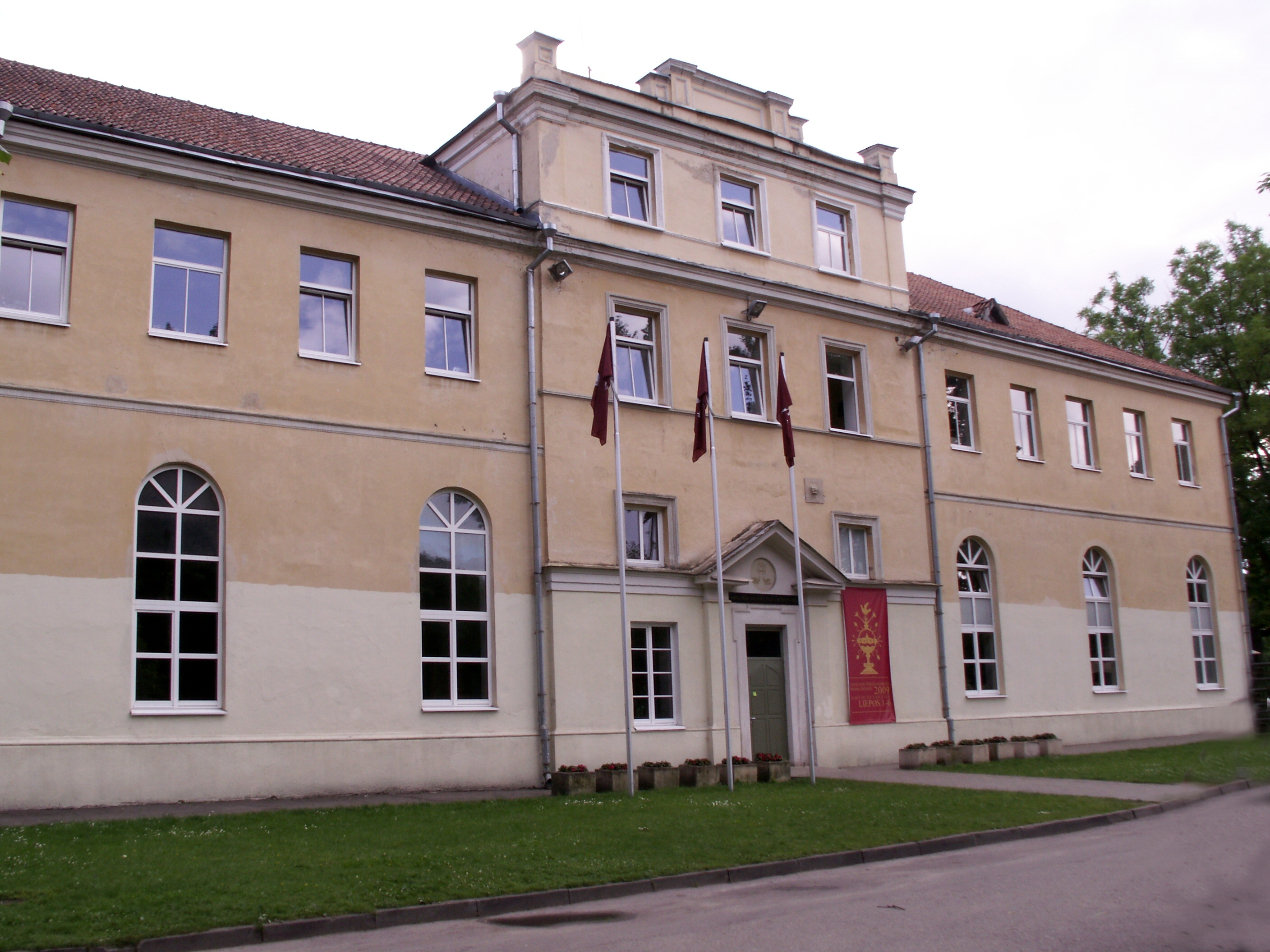 Lithuanian center of culture in Vilnius, Lithuania